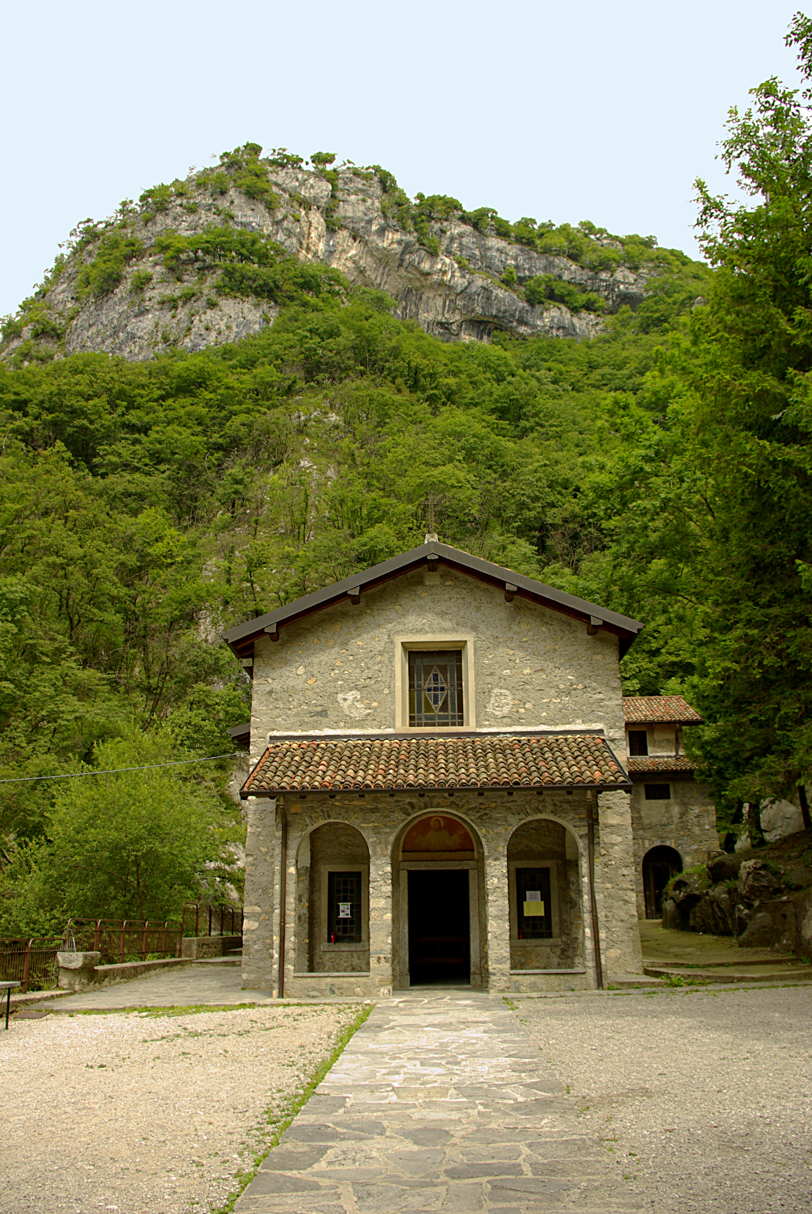 church of San Miro in Canzo (Como) Lombardy Italy